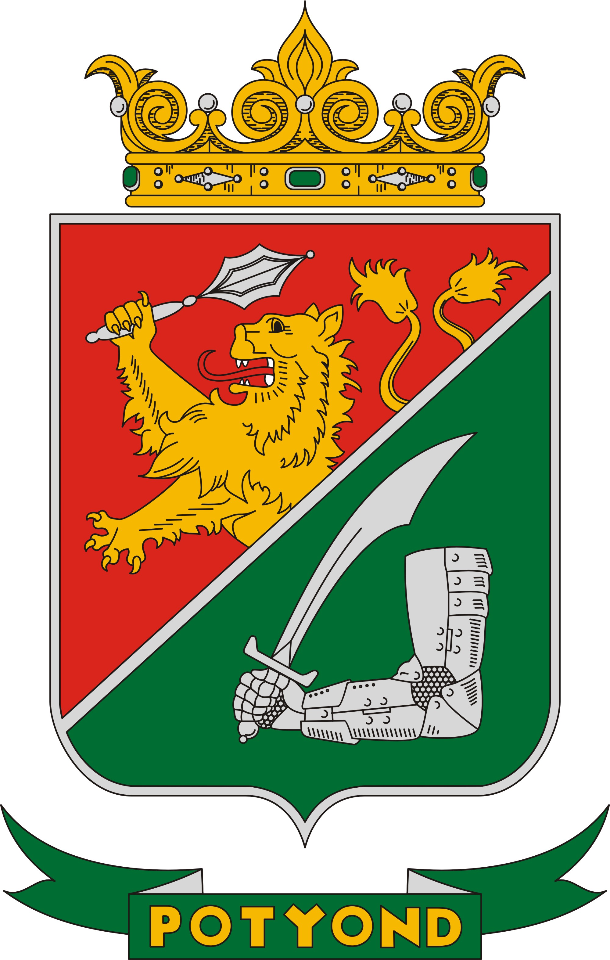 Coat of arms of Potyond, Hungary